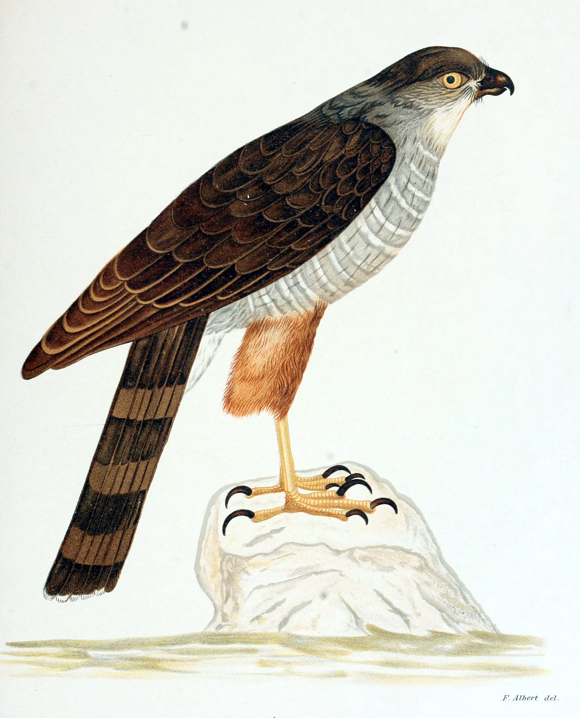 Accipiter bicolor chilensis